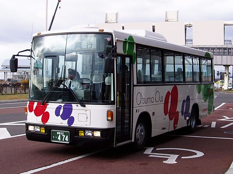 Atsuma Bus Nissan Diesel U-RM210G*N at New Chitose Airport